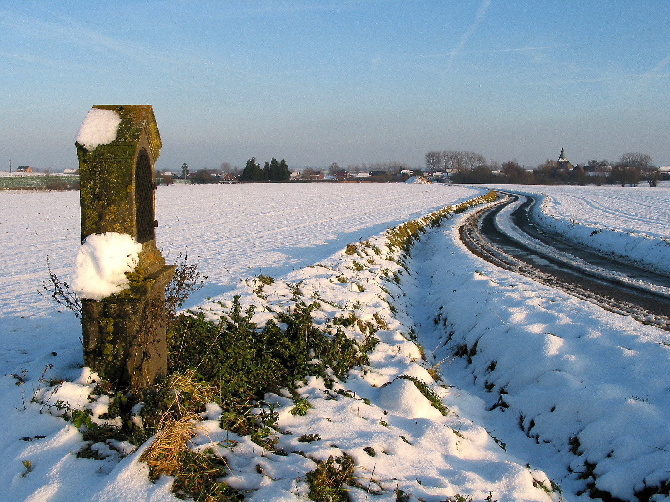 Chaussée-Notre-Dame-Louvignies (Belgium), the votive chapel of the "Rue du Fouly". Walon: Chaussée-Notre-Dame-Louvignies (België), de kleine votivekapel van "du Fouly" straat. Walon: Tchauséye-Notrè-Dame-Louvignîyes (Bèljike), li potale dol rouwe do "Fouly".